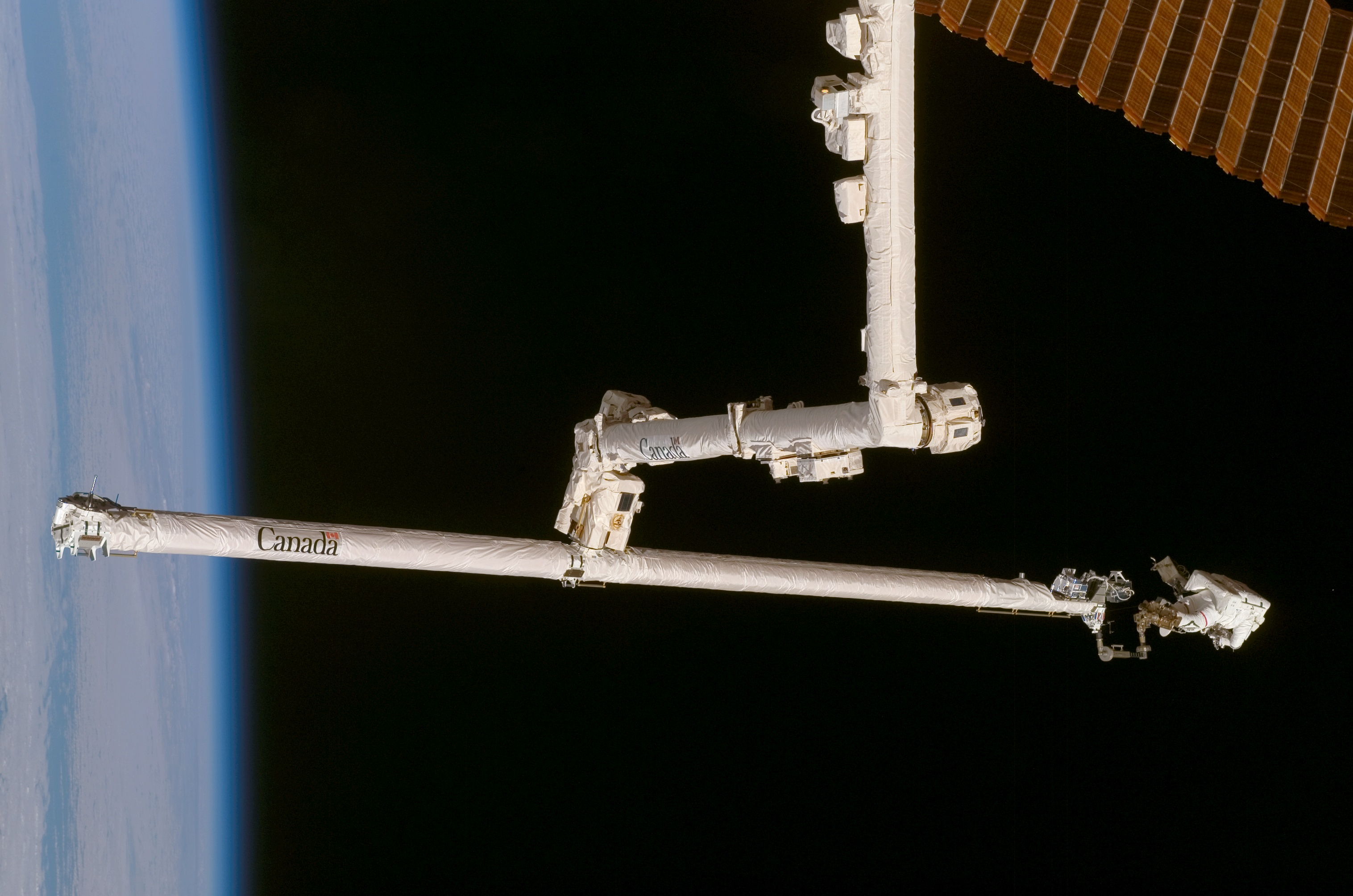 While anchored to a foot restraint on the end of the Orbiter Boom Sensor System (OBSS), astronaut Scott Parazynski, STS-120 mission specialist, participates in the mission's fourth session of extravehicular activity (EVA) while Space Shuttle Discovery is docked with the International Space Station. During the 7-hour, 19-minute spacewalk, Parazynski cut a snagged wire and installed homemade stabilizers designed to strengthen the damaged solar array's structure and stability in the vicinity of the damage. Astronaut Doug Wheelock (out of frame), mission specialist, assisted from the truss by keeping an eye on the distance between Parazynski and the array. Once the repair was complete, flight controllers on the ground successfully completed the deployment of the array.